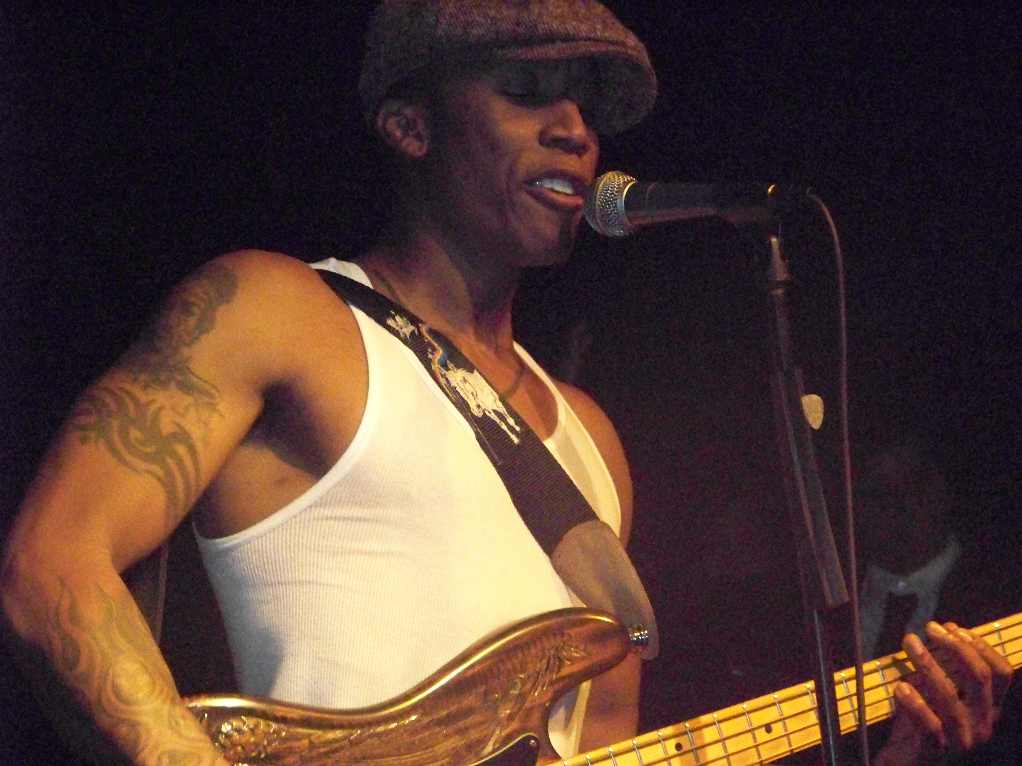 Raphael Saadiq, American singer-songwriter.